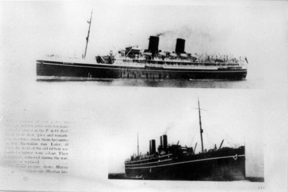 P&O liners RMS Mooltan (above) and her sister ship Maloja (below), built in 1923. 600.8 x 73.4 x 34.10. In World War II Mooltan was an auxiliary cruiser and troopship. She was scrapped in 1954. (Description supplied with photograph).